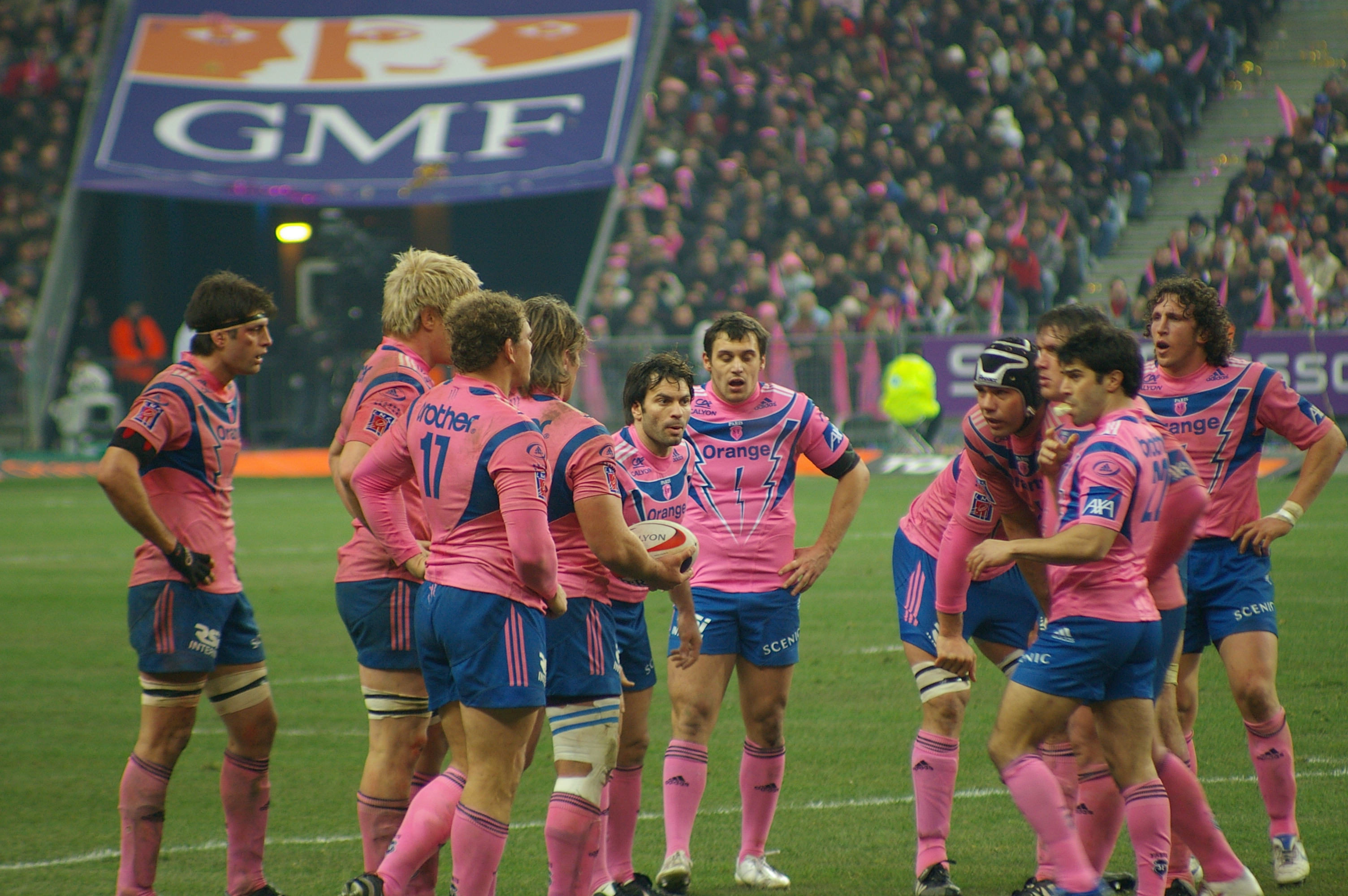 Pictures from the rugby game Stade Français vs Stade toulousain which took place in Stade de France, Paris, 27/01/2007. Chistophe Dominici and teammates